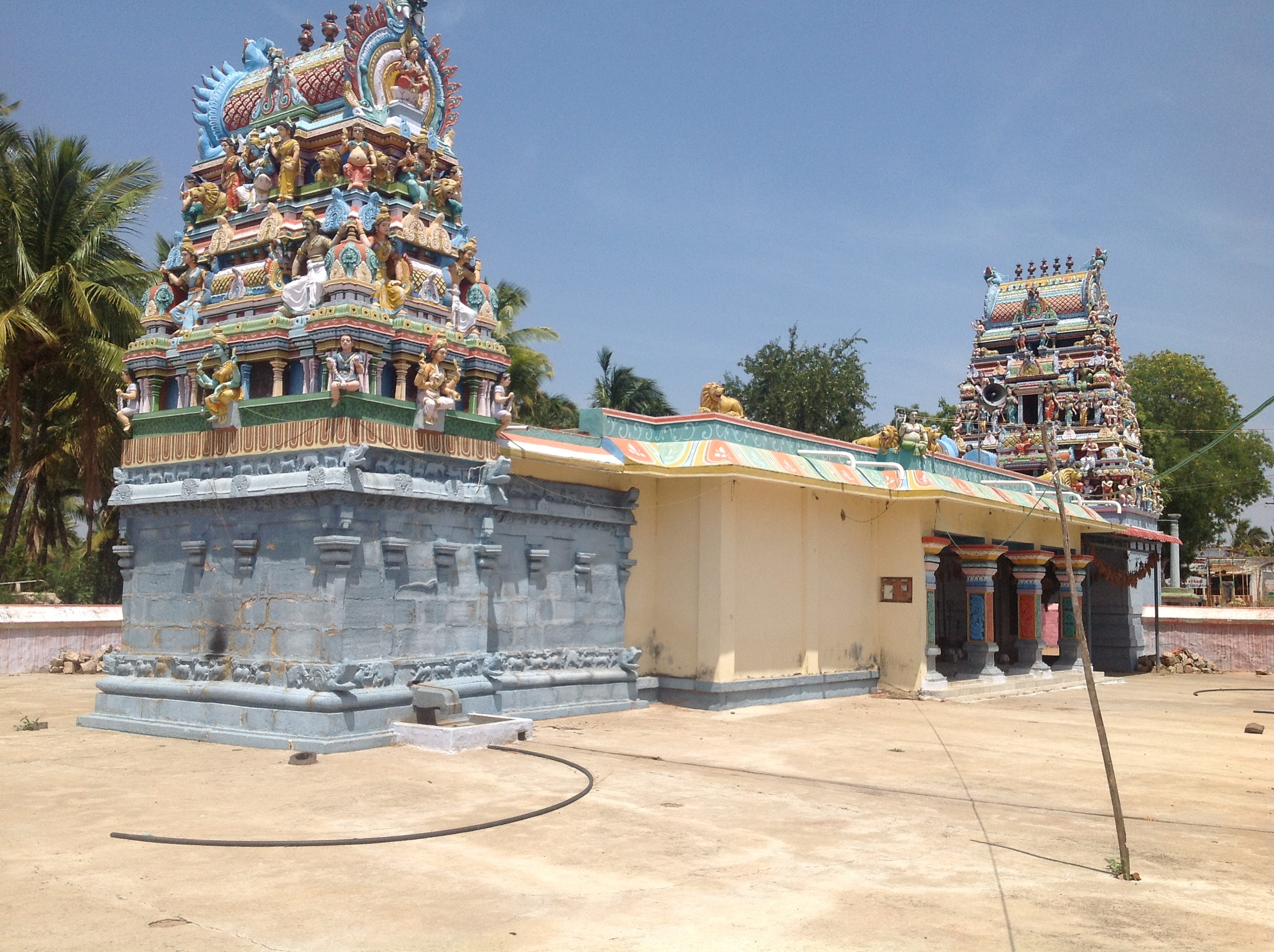 Temple of the Deity, Marudha Kaliamman, protecting the Village of Kadathur. Dravidian architecture for a small temple.